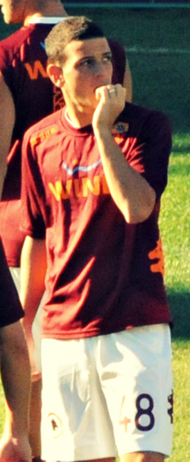 Players of AS Roma before the game between Liverpool and AS Roma at Fenway Park, 25 July 2012.